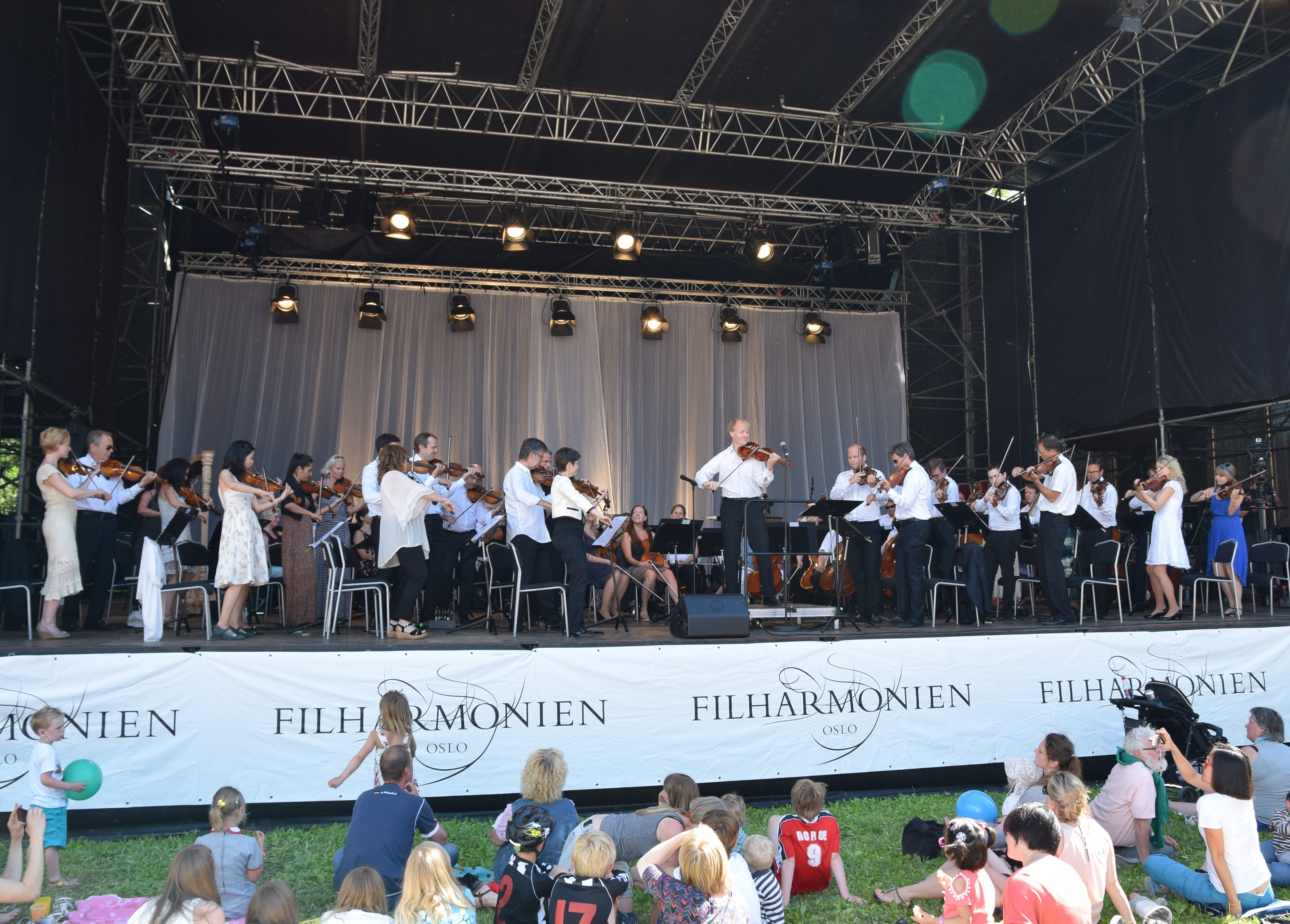 Oslo Philharmonic Summer Concert, open air at the park Myraløkka, Sagene, Oslo, June 15, 2014